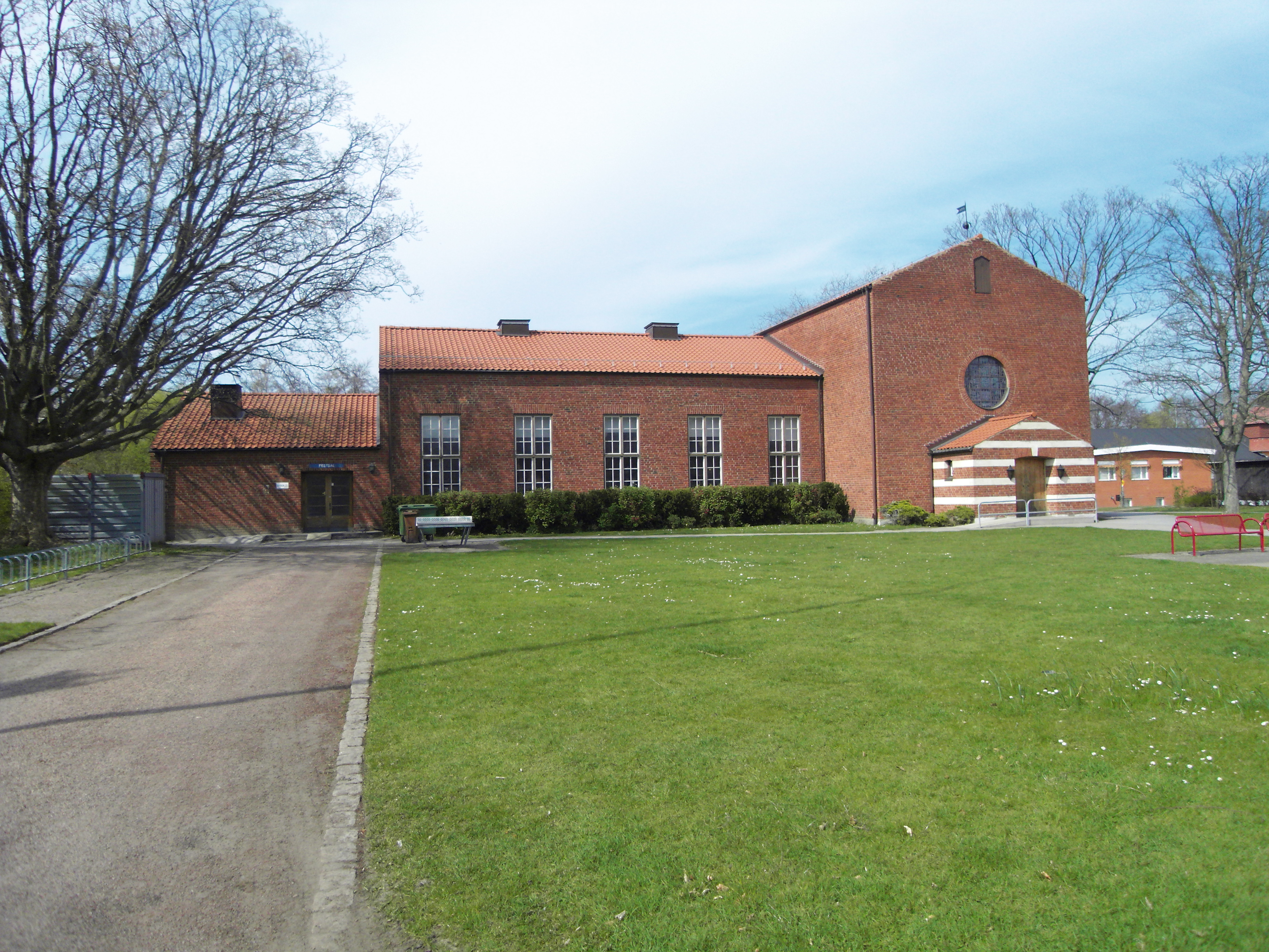 This is the Hospital Church (Swedish: Sjukhuskyrkan), a former hospital church in Malmo. Nowadays it's used as a dining hall.